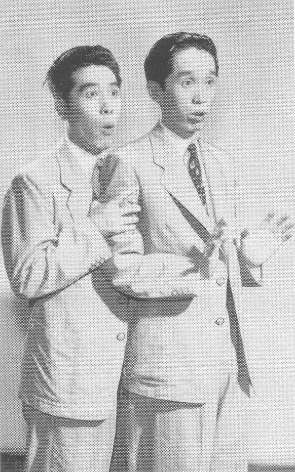 Itoshi Yumeji (right) & Koishi Kimi (left), Manzai.